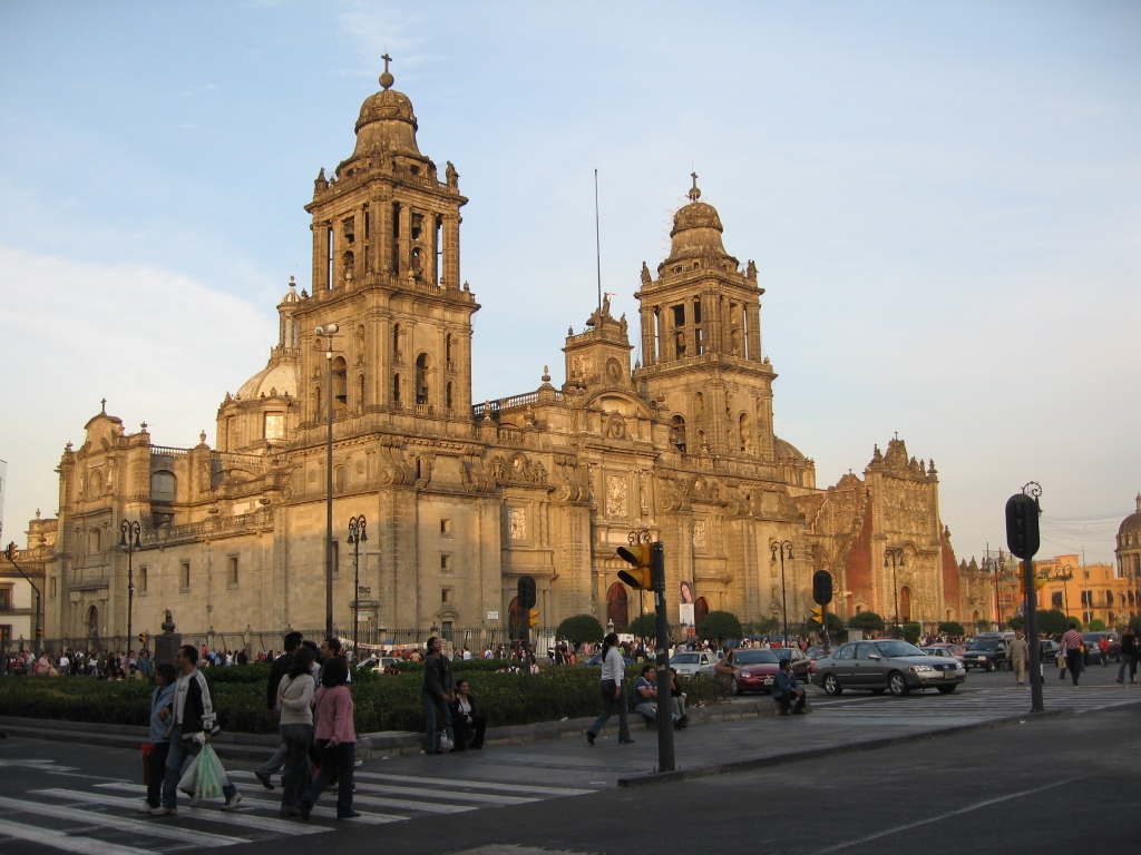 Mexico city cathedral as seen from Madero Street.